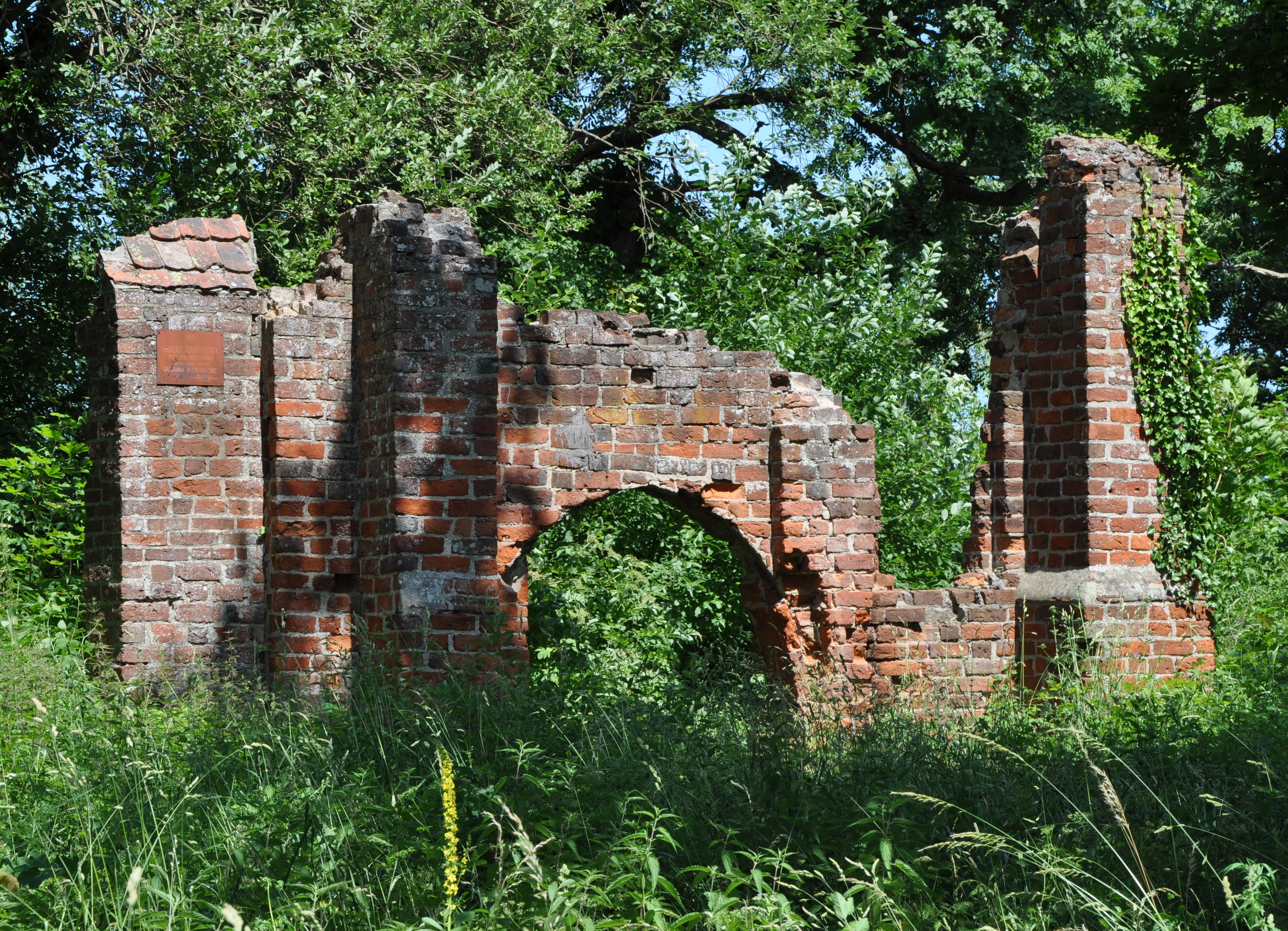 Ruins of the Wyszkowo Church in Trzebiatów